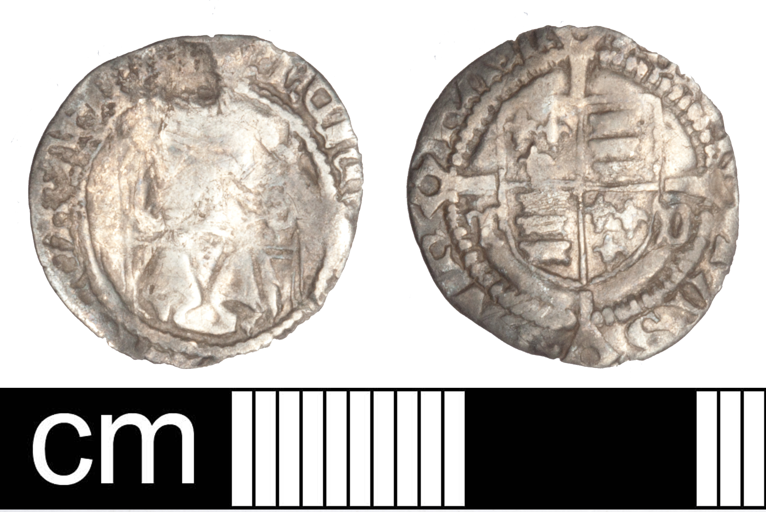 Medieval silver penny of Henry VII (1485-1509), sovereign type (king enthroned), no initial mark, minted at Durham under Bishop Richard Fox (1494-1501), North 1731.